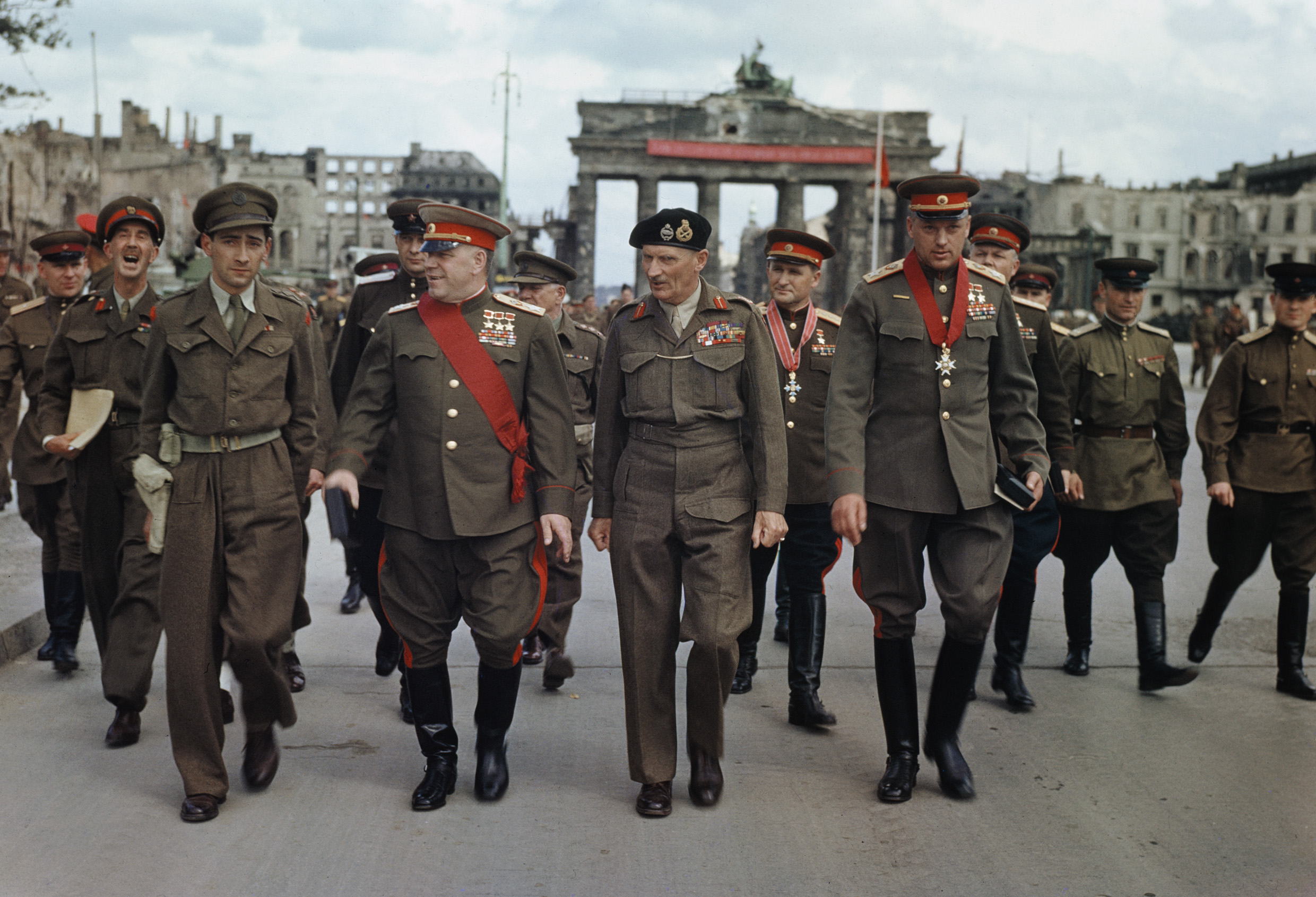 FIELD MARSHAL MONTGOMERY DECORATES RUSSIAN GENERALS AT THE BRANDENBURG GATE IN BERLIN, GERMANY, 12 JULY 1945. The Deputy Supreme Commander in Chief of the Red Army, Marshal G Zhukov, the Commander of the 21st Army Group, Field Marshal Sir Bernard Montgomery, Marshal K Rokossovsky and General Sokolovsky of the Red Army leave the Brandenburg Gate after the ceremony.